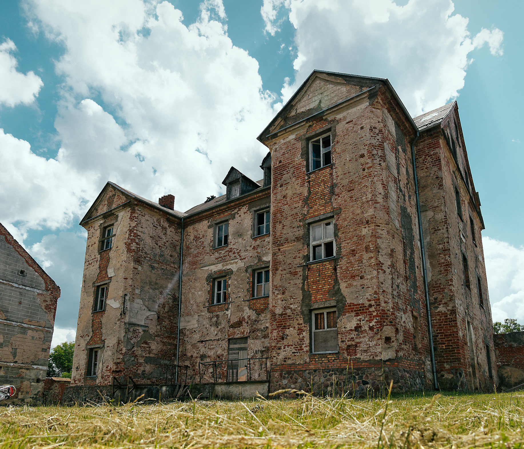 Ełk - Zamkowa St. - the ruin of the former prison in Ełk - in the past a castle of the Teutonic Order - June 2016